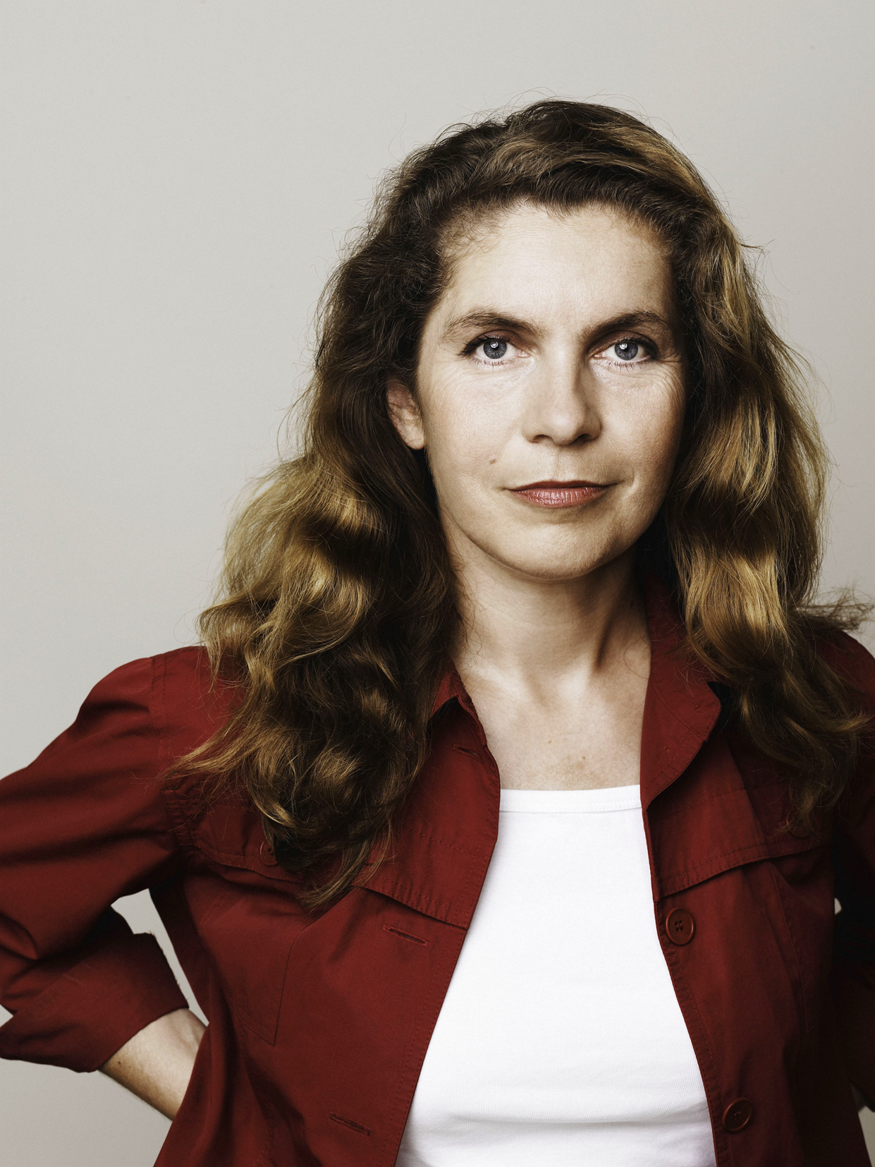 The austrian politician Brigid Weinzinger, member of the Green Party of Austria